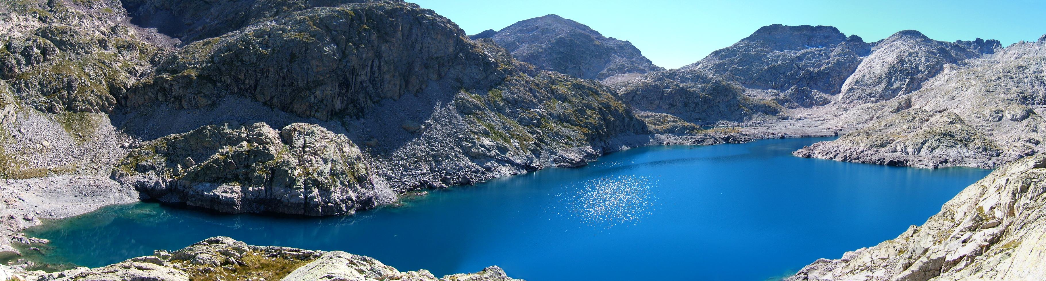 Lake superior of Bramatuero